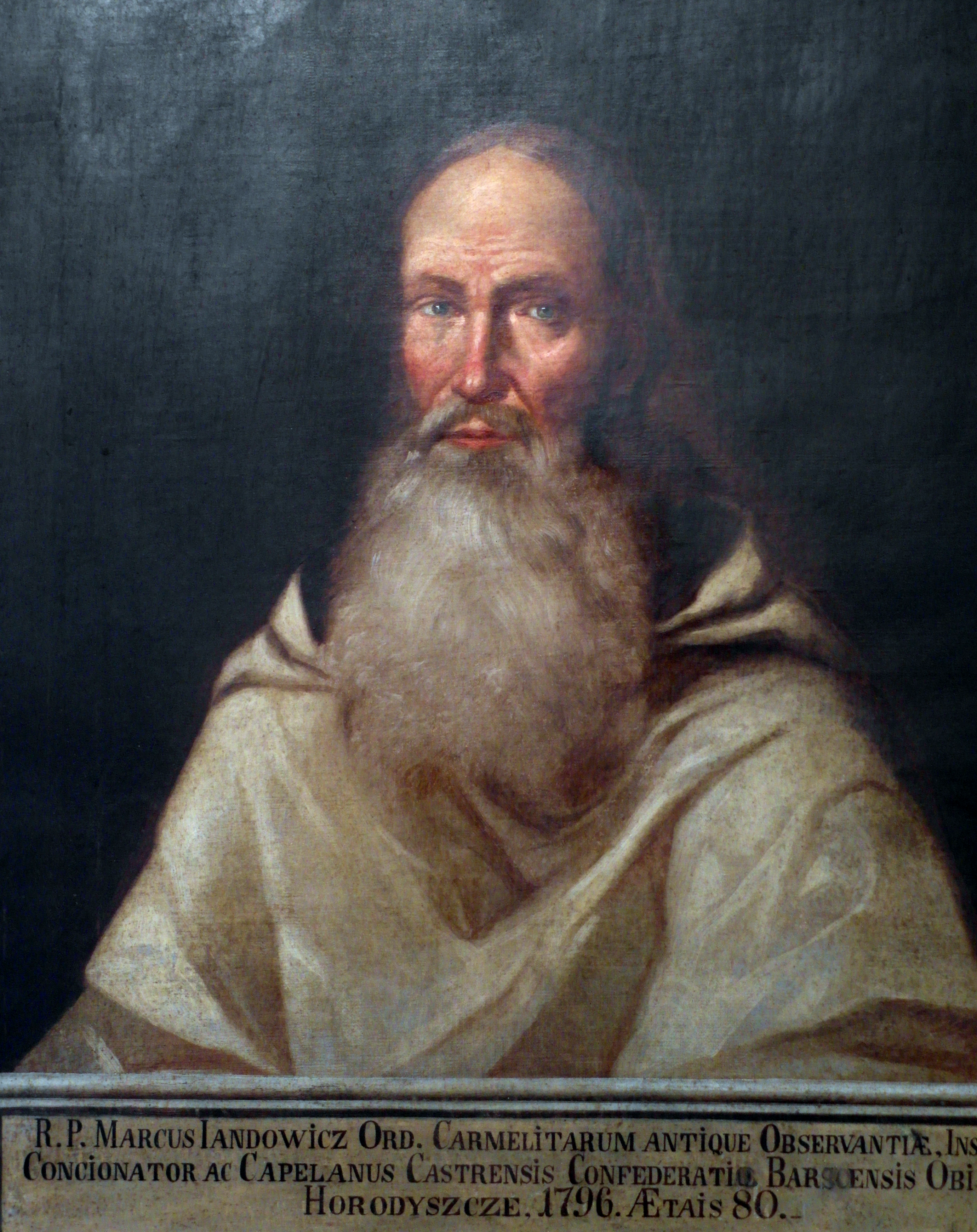 Marek Jandołowicz